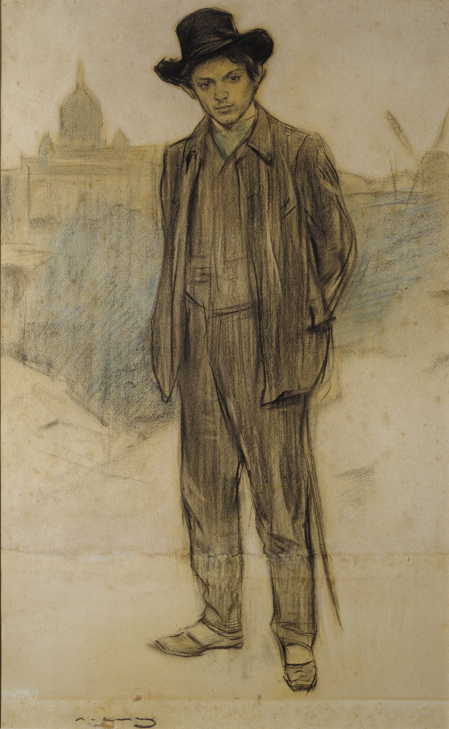 Portrait of a young Picasso painted by Ramon Casas